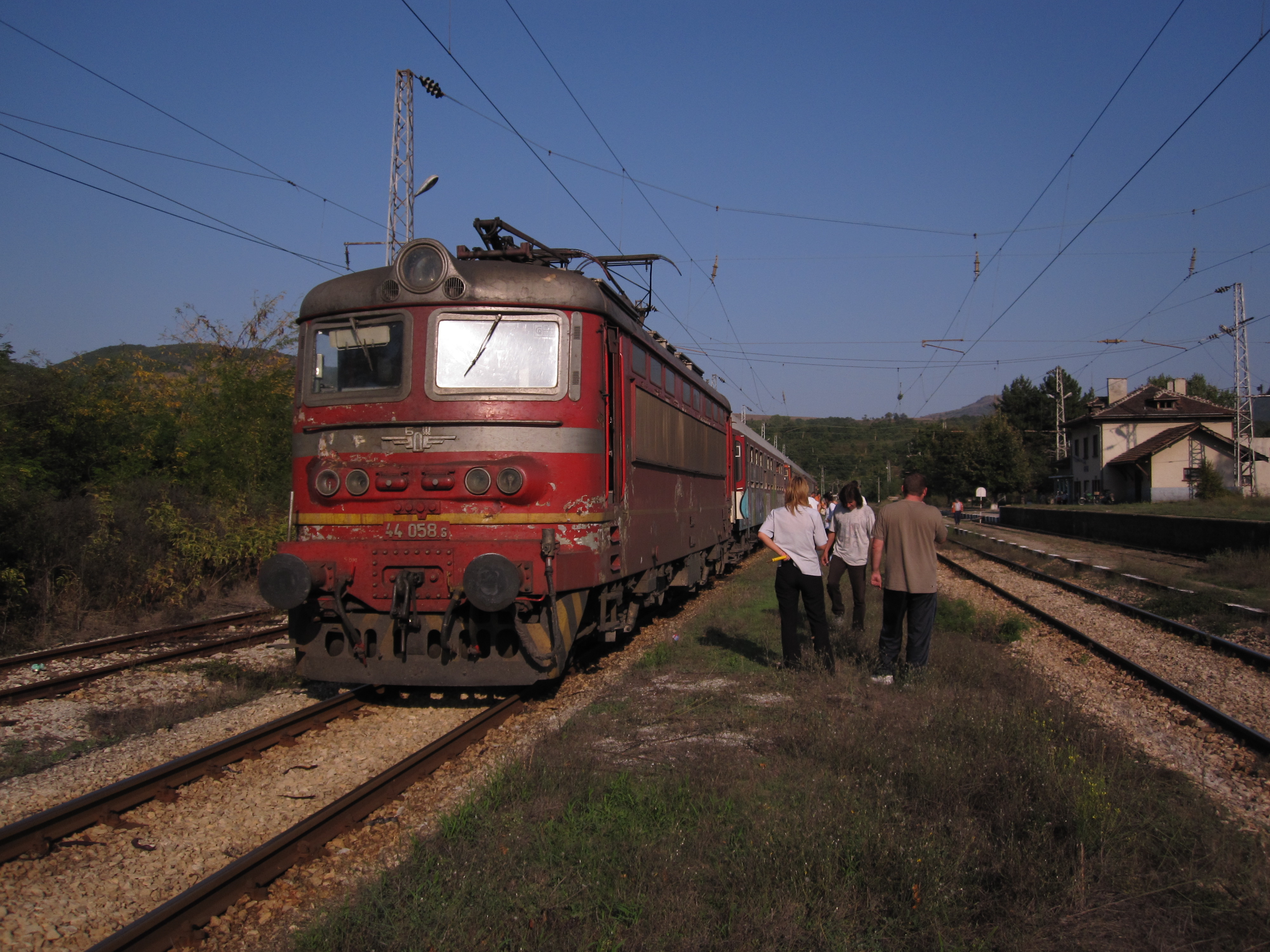 Scheduled pathing stop at Daskotna to allow trains to cross. Seen here is 44058 on train 8632, 15:00 Varna to Plovdiv on 26 September 2012. Despite a wait of around 10 minutes, the stop was not shown in the public timetable. However this was used as a convenient "smoking" break for the train crew and fellow passengers.